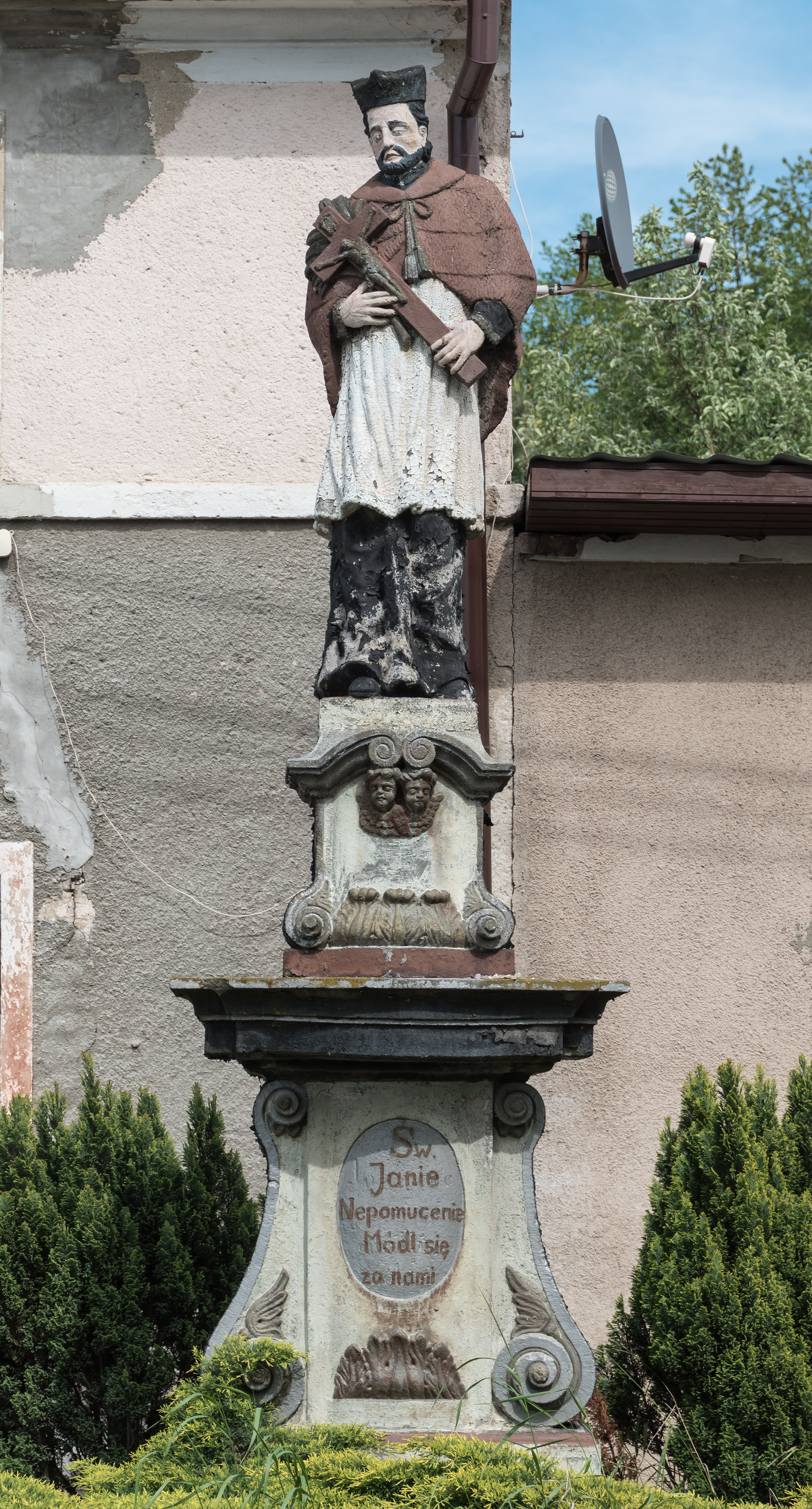 Statue of John of Nepomuk in Boguszyn